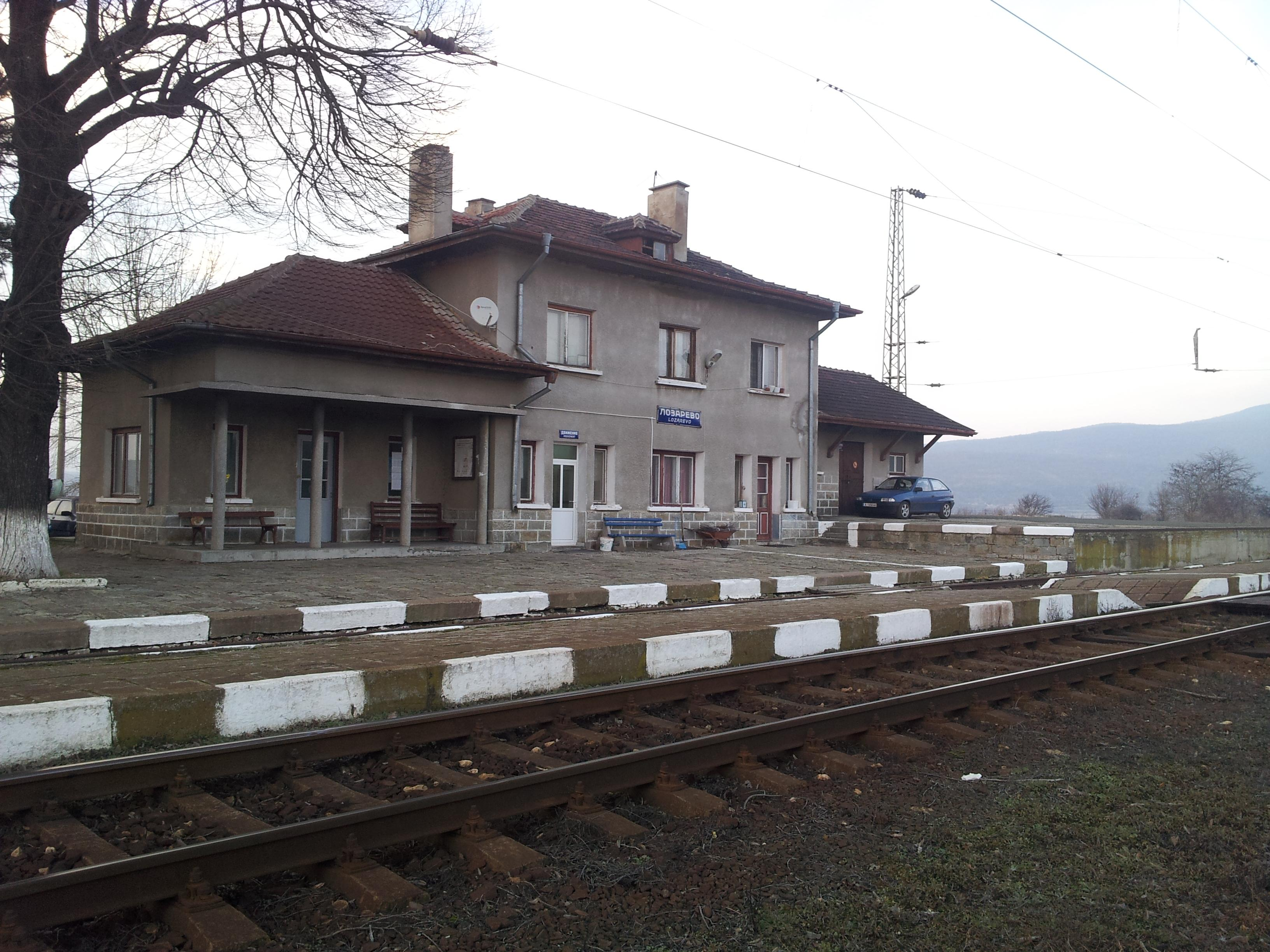 о